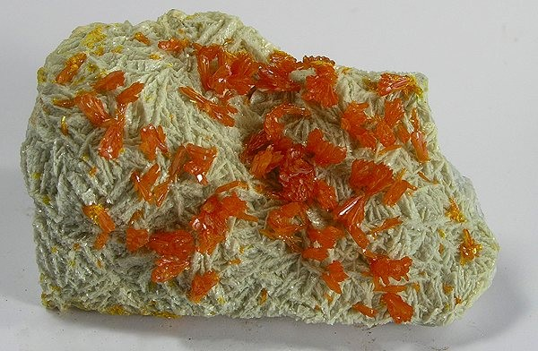 Orpiment, Baryte Locality: El'brusskiy (Elbrusskii) Arsenic mine, Elbrus, Kabardino-Balkarian Republic, Northern Caucasus Region, Russia (Locality at ) Size: 7.0 x 4.5 x 3.1 cm. These little bright orange orpiments stand out so beautifully against the backdrop of light barite. They are little isolated sprays of crystals, rather than the usual plates of massed crystals from here, and (I think) prettier than those "wall-to-wall" plates.